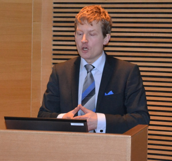 Researcher of politics, Dr. Erkka Railo introducing the book "Oikeistopopulismin monet kasvot" (Many Faces of Right-Wing Populism) in Helsinki 2011.